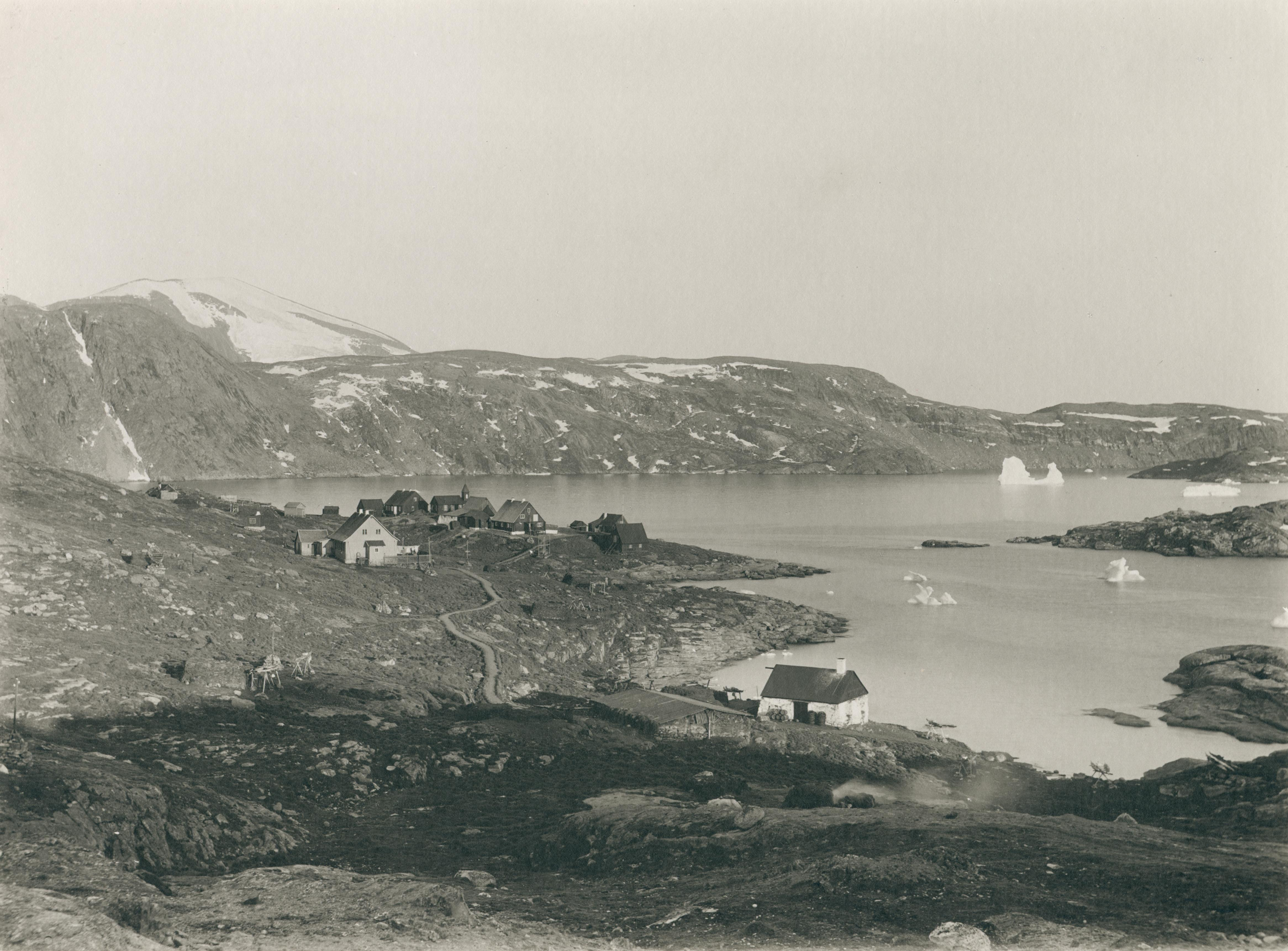 Greenland. The town Upernavik.